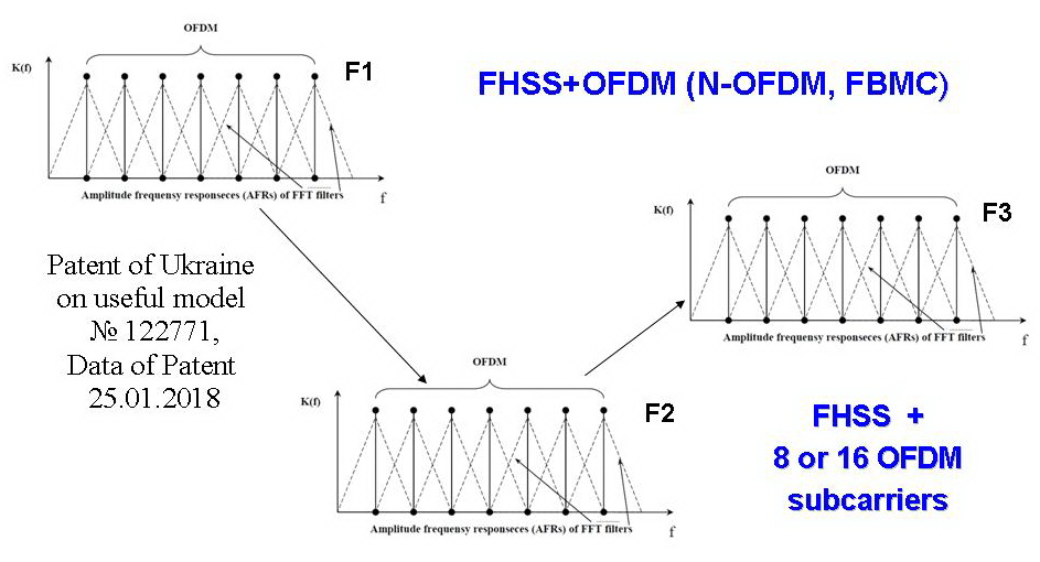 The combination of FHSS and OFDM (N-OFDM)